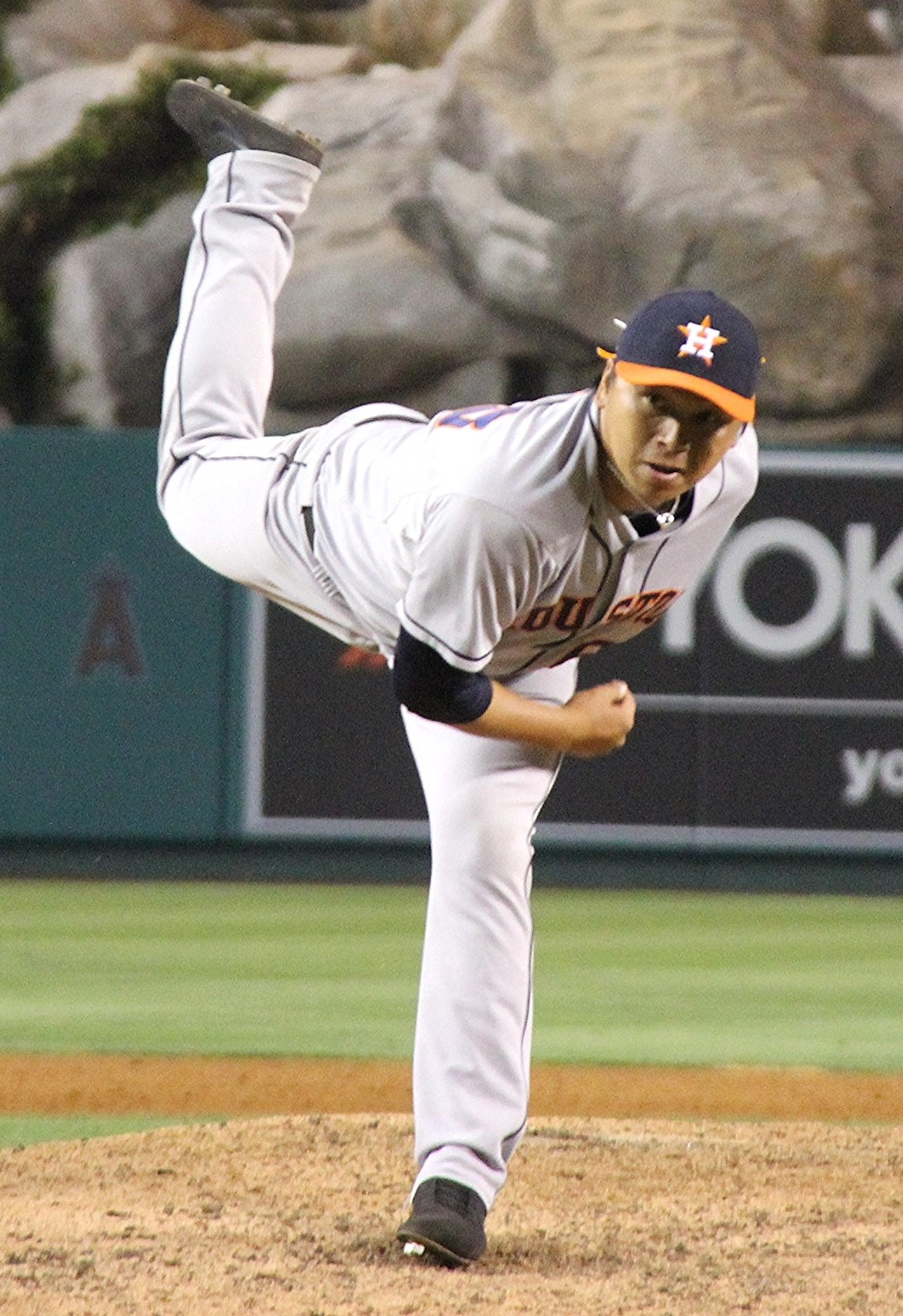 Chia Jen Lo in 2013 Houston Astros